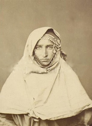 Archi woman from Dagestan